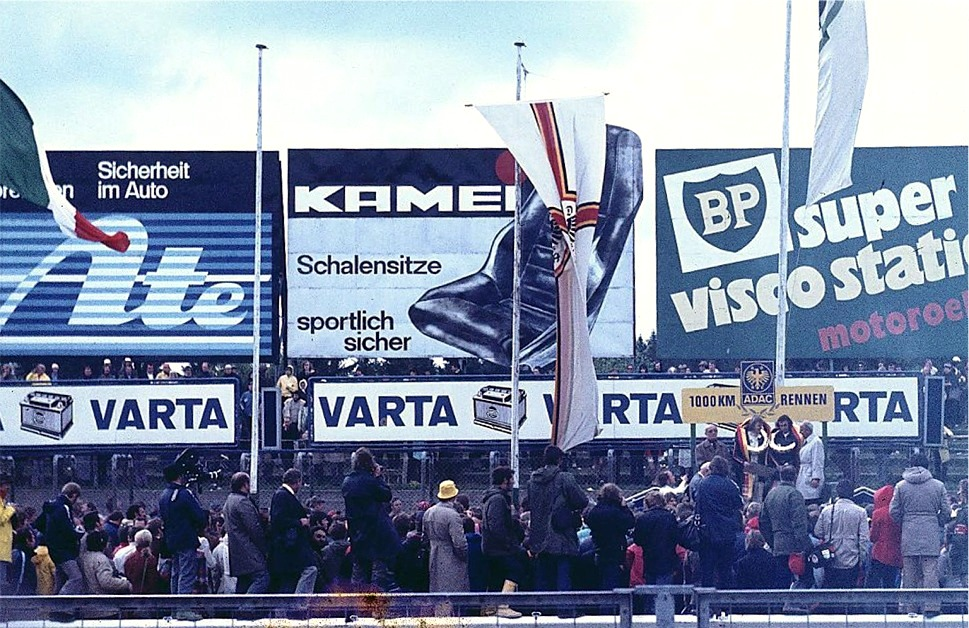 Prizegiving ceremony following the 1972 Nürburgring 1000km race. The winning drivers are on the podium with wreaths around their necks to the right of the shot: on the left is Ronnie Peterson (SWE), and on the right is Tim Schenken (AUS).